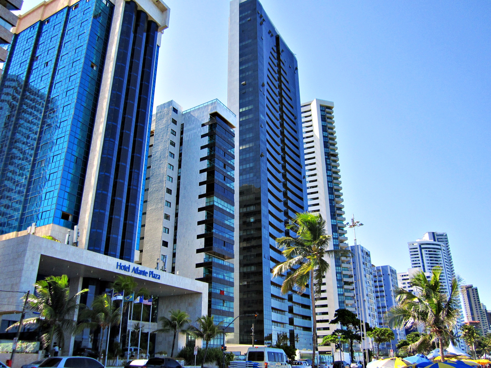 Boa Viagem Beach - Recife - Pernambuco - Brazil